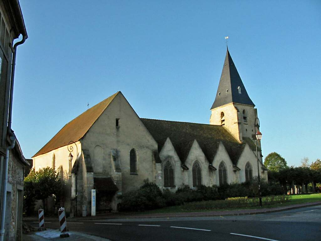 Church of Arnouville-lès-Mantes (Yvelines, France)